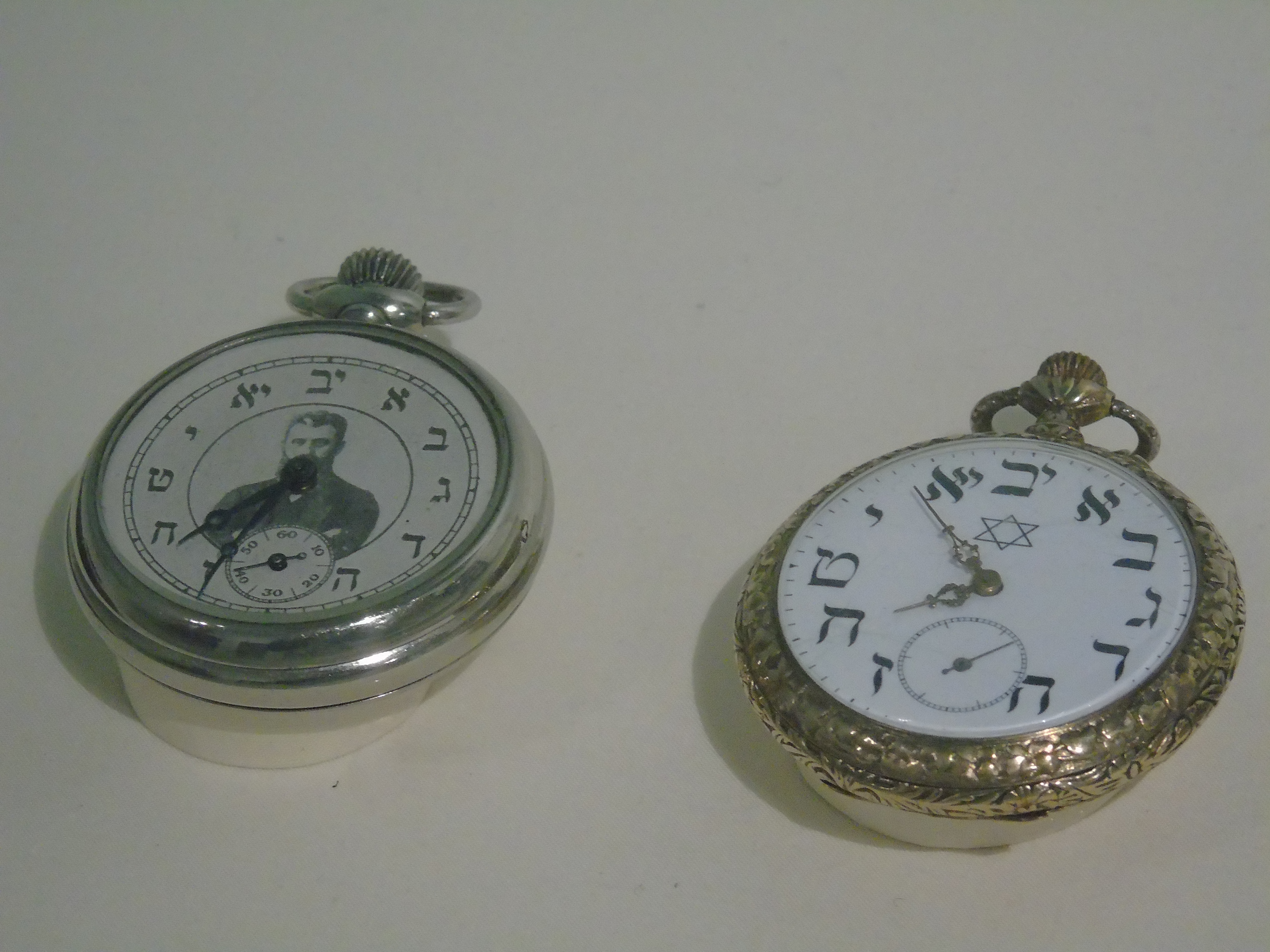 Jewish pocket watches